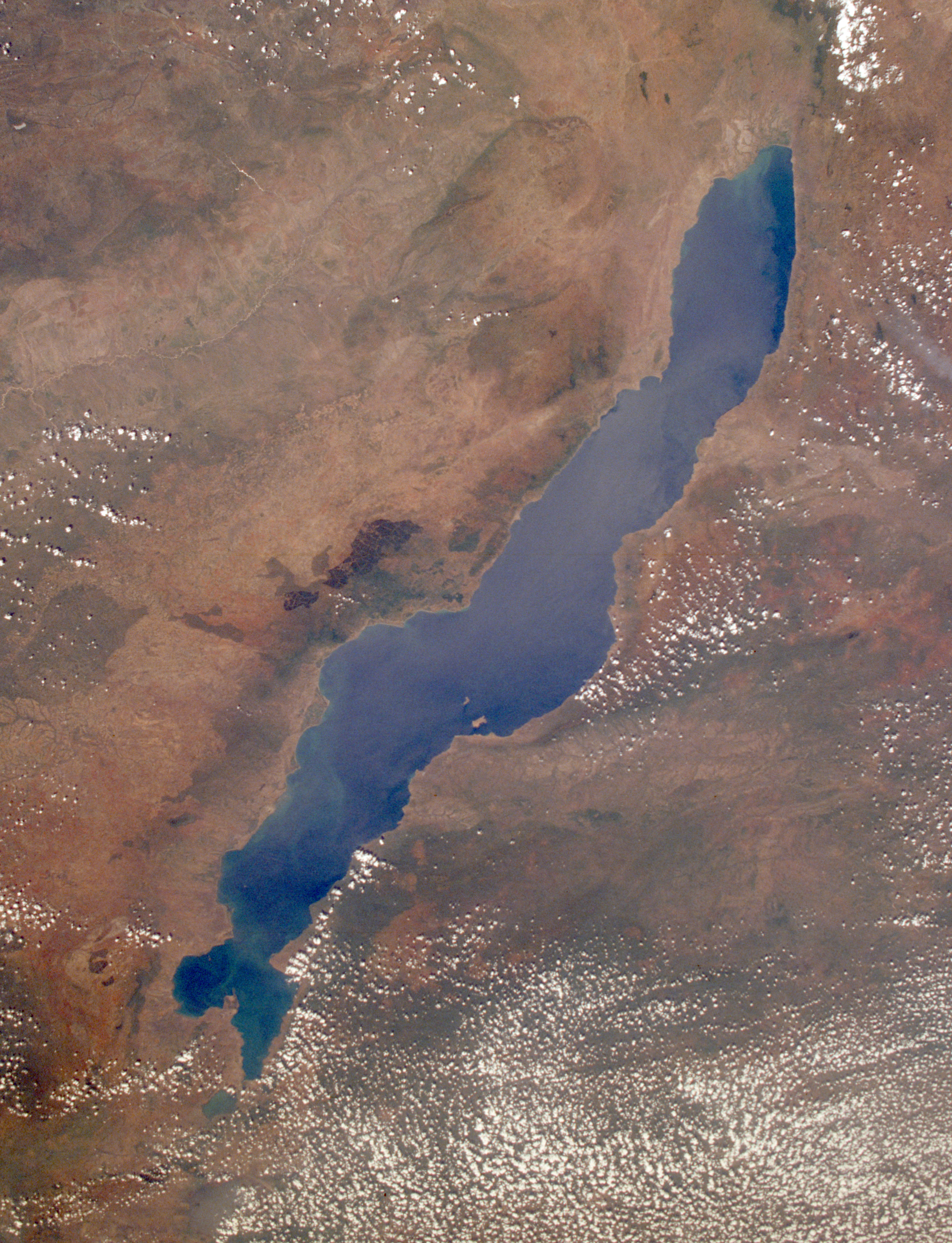 Lake Malawi in Africa, photographed by astronauts aboard the Space Shuttle. Original image courtesy of the Image Analysis Laboratory, NASA Johnson Space Center . Image ID: STS061-75-48. Image cropped, sharpened and gamma-corrected. This low-oblique, southeast-looking photograph shows Lake Malawi, one of many elongated lakes that form part of the Great Rift Valley of east Africa. The lake, bounded by steep mountains on all sides except the southern end, is approximately 360 miles (580 kilometers) long, averages 25 miles (40 kilometers) in width, and has a maximum depth of 2316 feet (706 meters). Lake Malawi is drained at the south end by the Shire River, which eventually empties into the Zambezi River. The lake and its steep-sloped shoreline were created by faulting that caused a thrust upward as the valley floor subsided between the slopes. The darker area along the northwest coast of the lake is the Nyika Plateau, which has several elevations more than 8000 feet (2440 meters) above sea level. Landlocked Malawi extends along the entire west coast of the lake. The large Luangwa River basin is visible as it drains to the southwest. Immediately west of the Luangwa River Valley stand the northeast-southwest-trending Muchinga Mountains with their dark ridgeline and maximum elevations reaching 6000 feet (1830 meters) above sea level. Northwest of this mountain range, drainage is to the north and west into the much larger Zaire (Congo) River watershed.